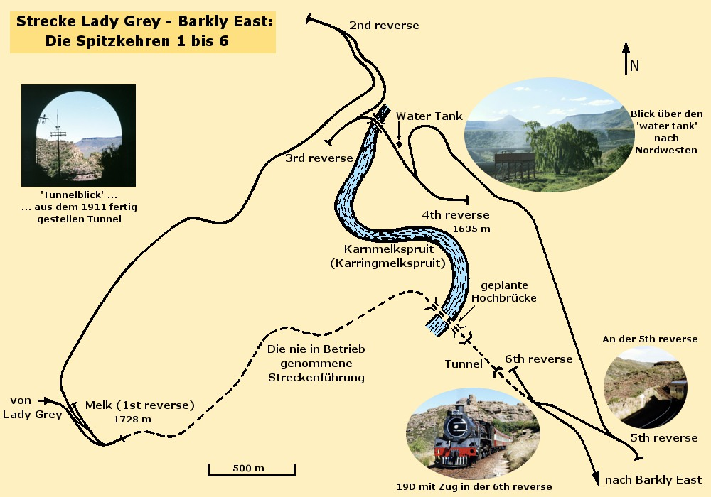 Detail map of the railway line Aliwal North - Lady Grey - Barkly East: The first 6 reverse stations.